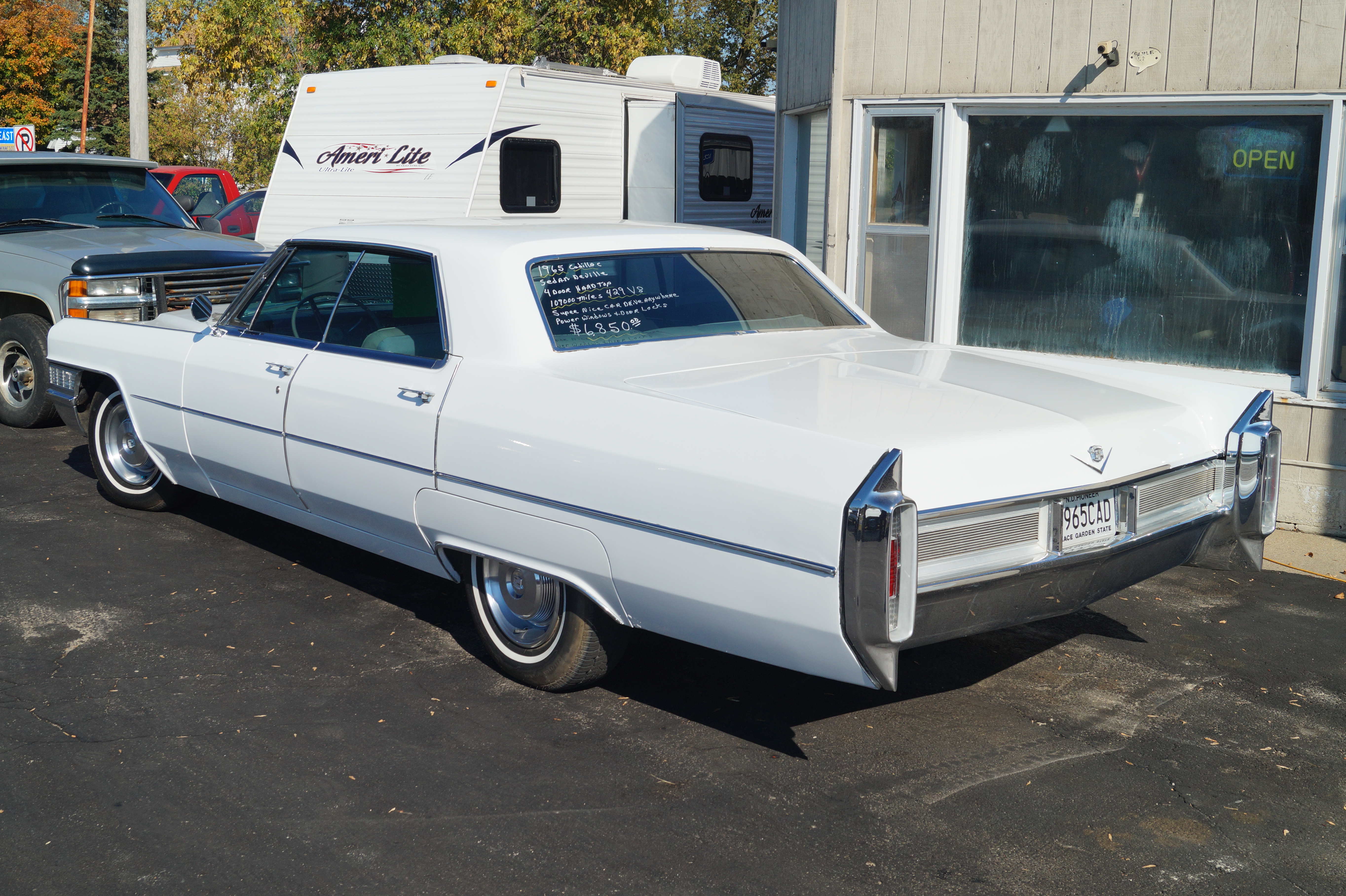 I could not see many cars on my way up to the Boat Show on Gull Lake, since it was very early, dark and foggy. Around the Boat Show and on the trip back I did catch a few. Click here for more car pictures at my Flickr site.